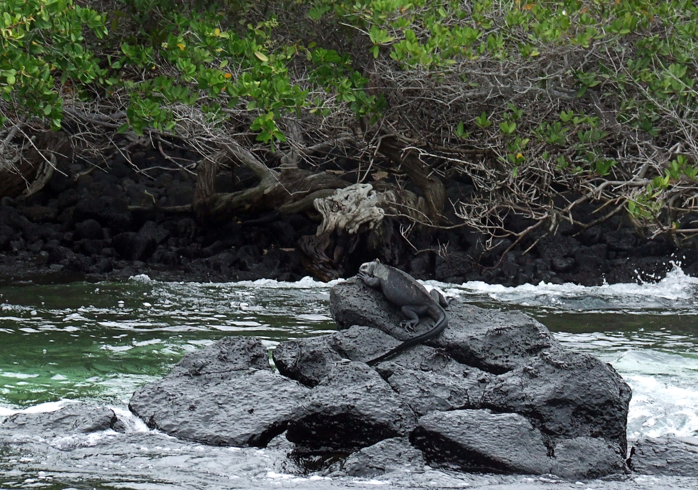 Galapagos islands marine iguana on a rock in the sea